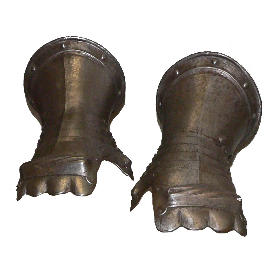 pairs of gauntlets, Germany, end of the 16th century